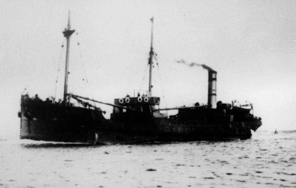 992 GRT cargo steamship Kowhai. W Harkess & Son of Middlesbrough on Tees-side built her in 1910 as Hopeful. Coast Lines bought her and renamed her Devon Coast. The Union Steam Ship Co of New Zealand bought her and renamed her Kowhai. She was scrapped in Melbourne, Australia 1951–57.